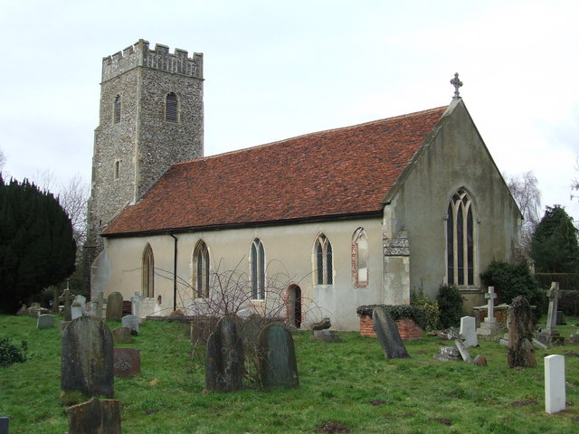 Church of St Mary Magdalene in Westerfield, Suffolk, England. A Grade I listed medieval church.